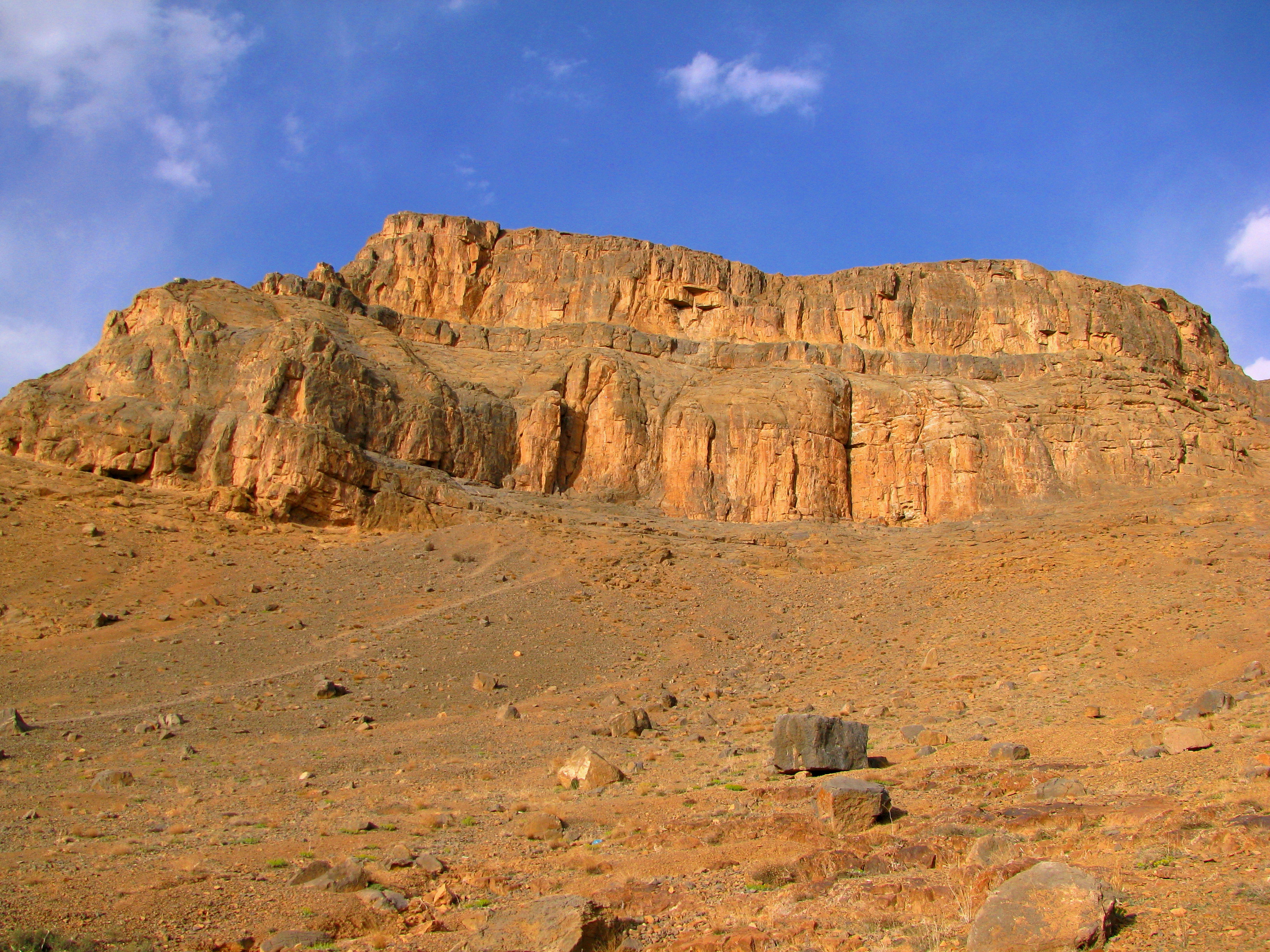 دیواره سنگنوردی سه طاقچه در نزدیکی روستای انجدان بخش اراک.